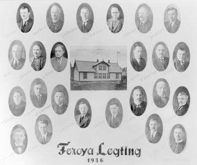 The members of the Faroese Løgting in 1936